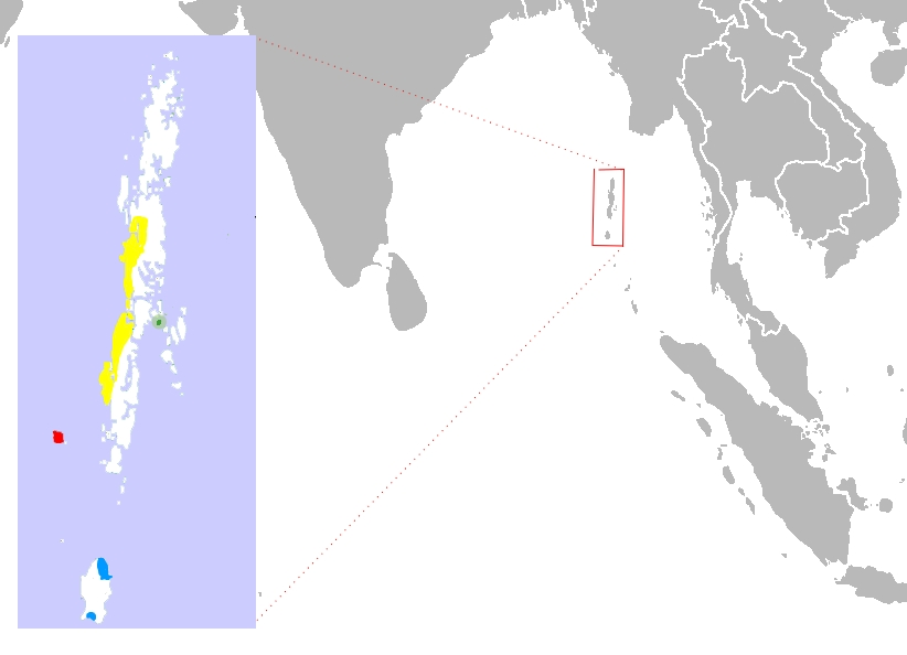 Map of andaman languages